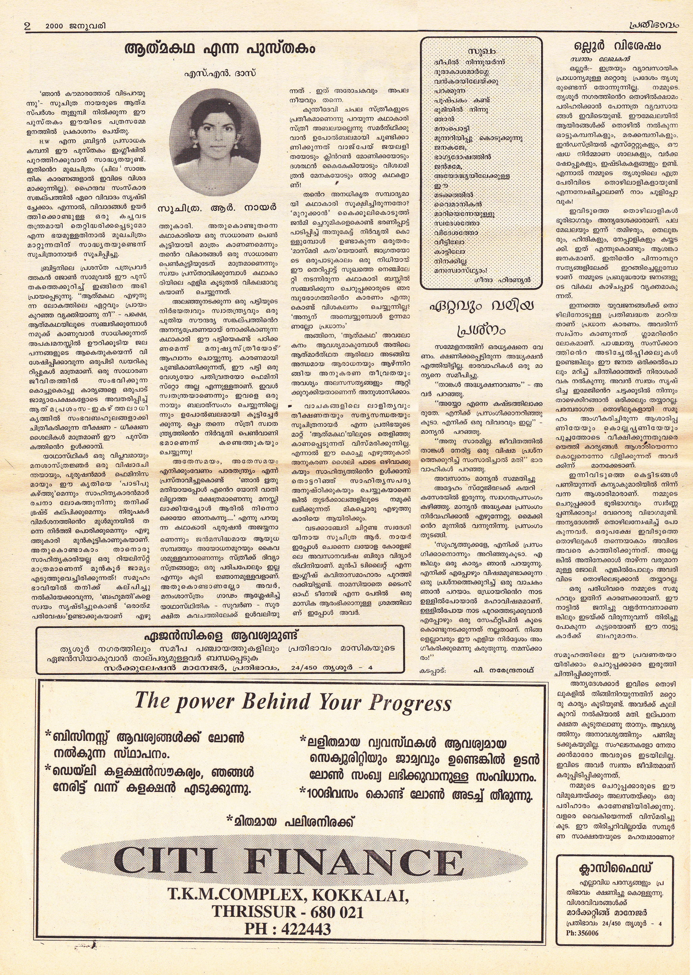 2nd page of Prathibhavam 1st edition, a defunct Malayalam monthly newspaper from Kerala. Sathish Kalathil was the publisher and editor of the paper.